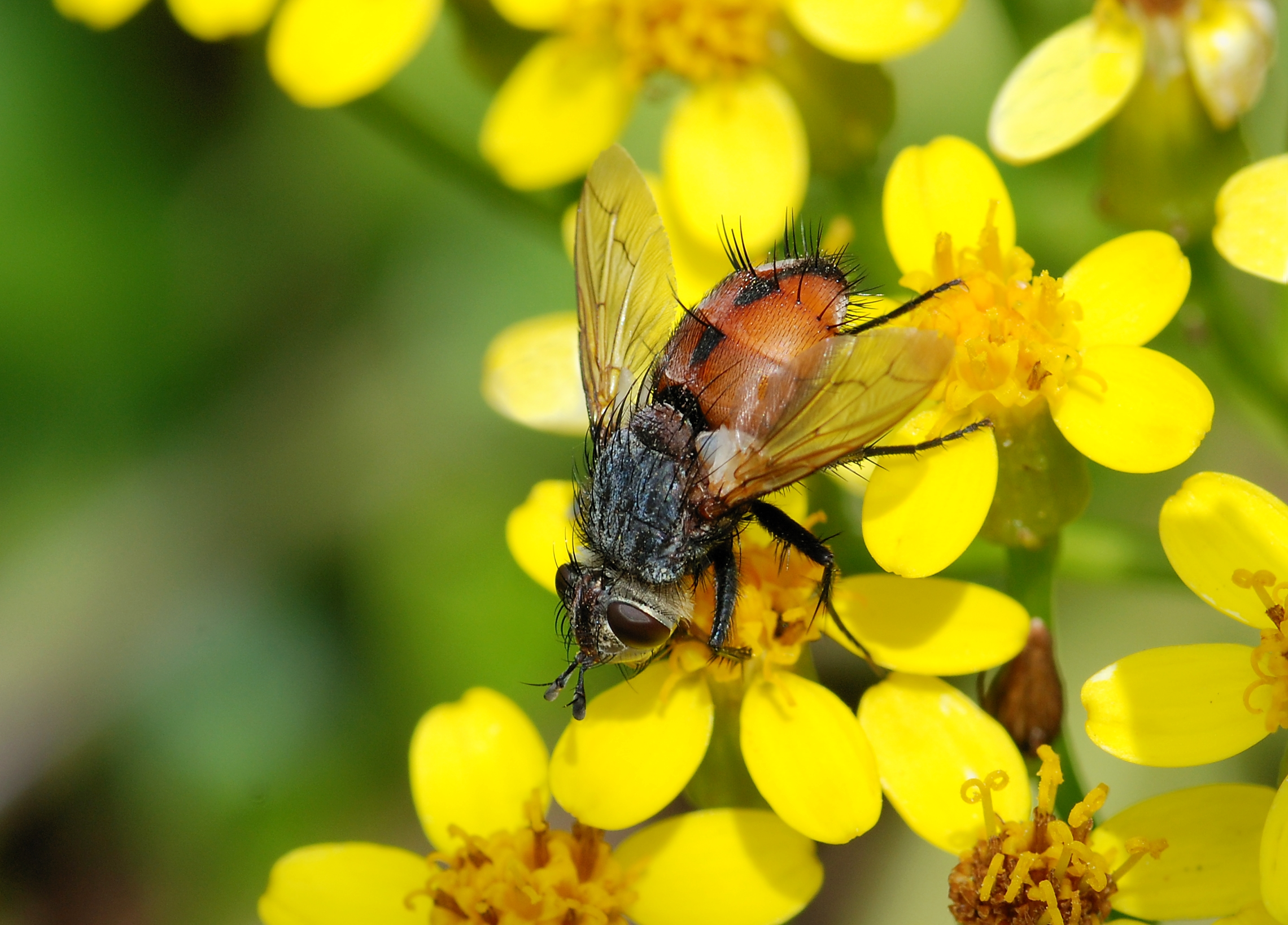 Tachina praeceps, a tachinid.